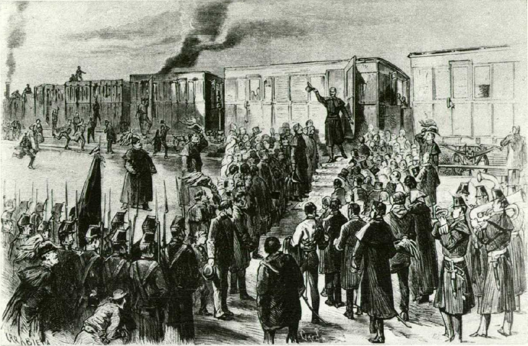 Amadeo I at the Elvas Railway Station, on his exile after abdicating the spanish throne, in 1873.